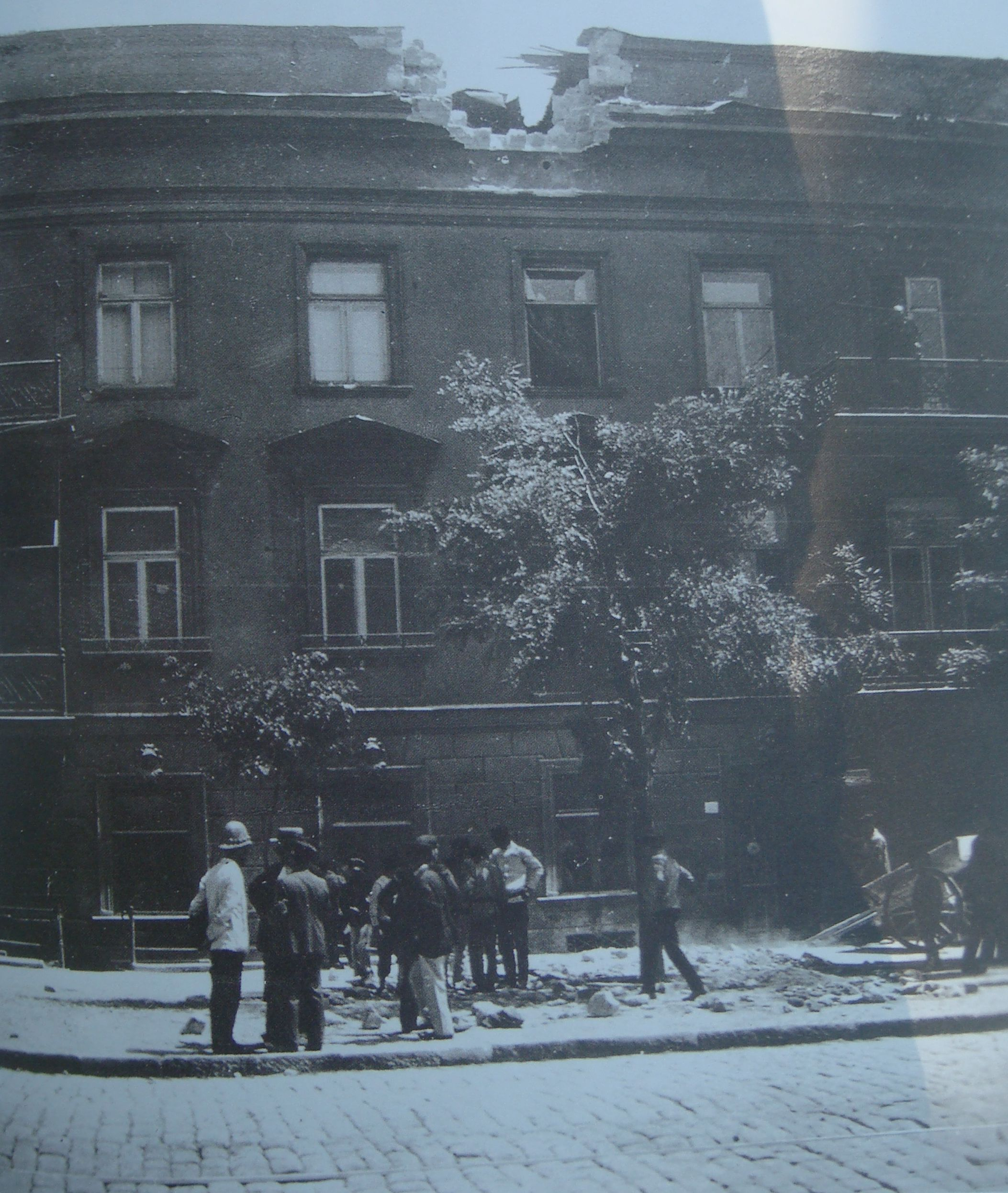 Russian Revolution of 1905. Battleship "Knyaz Potemkin" mutiny. Photo showes attics of a building in Odessa ruined by shell charged by rebells of Battleship "Knyaz Potemkin"